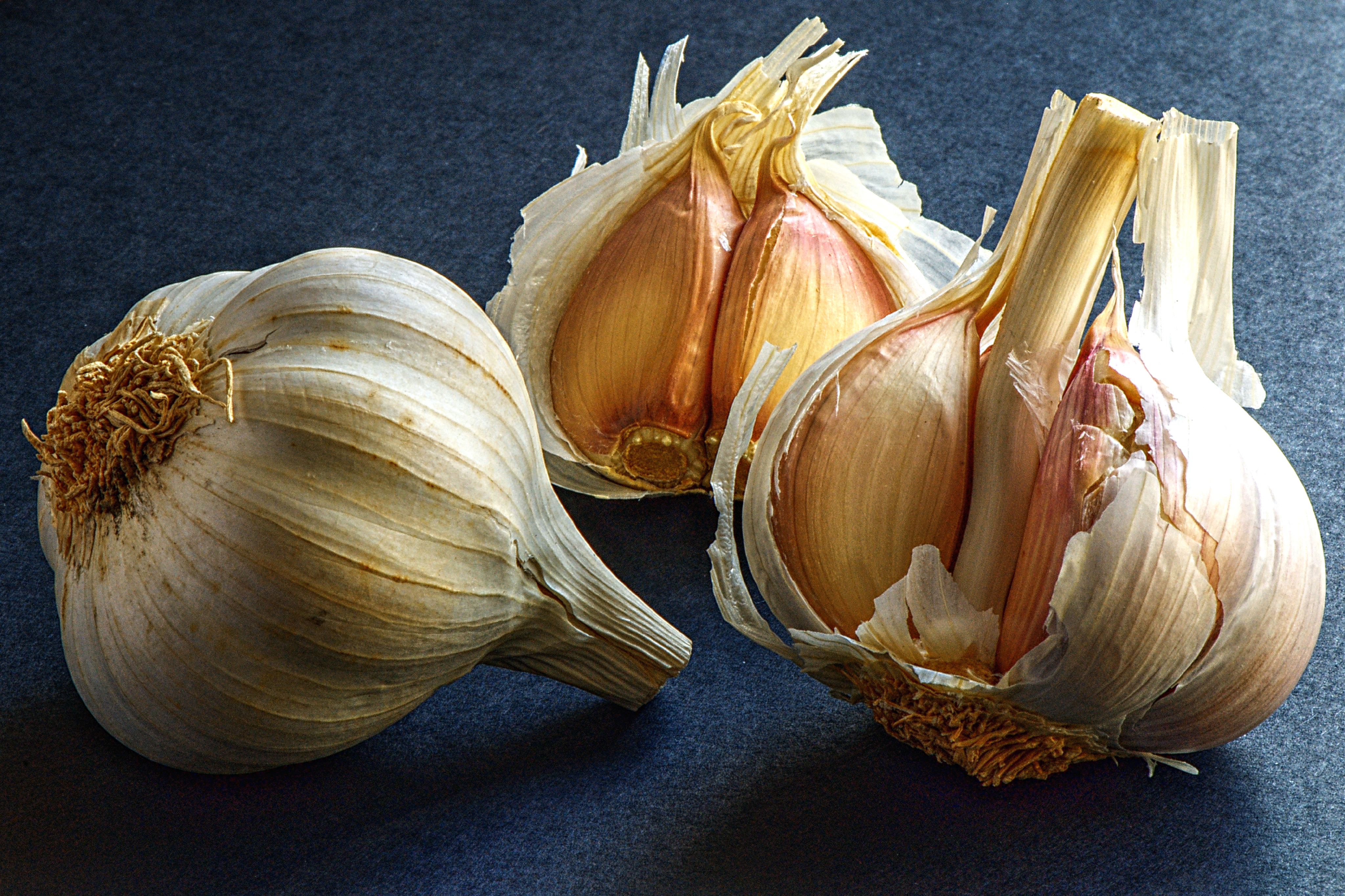 Garlics